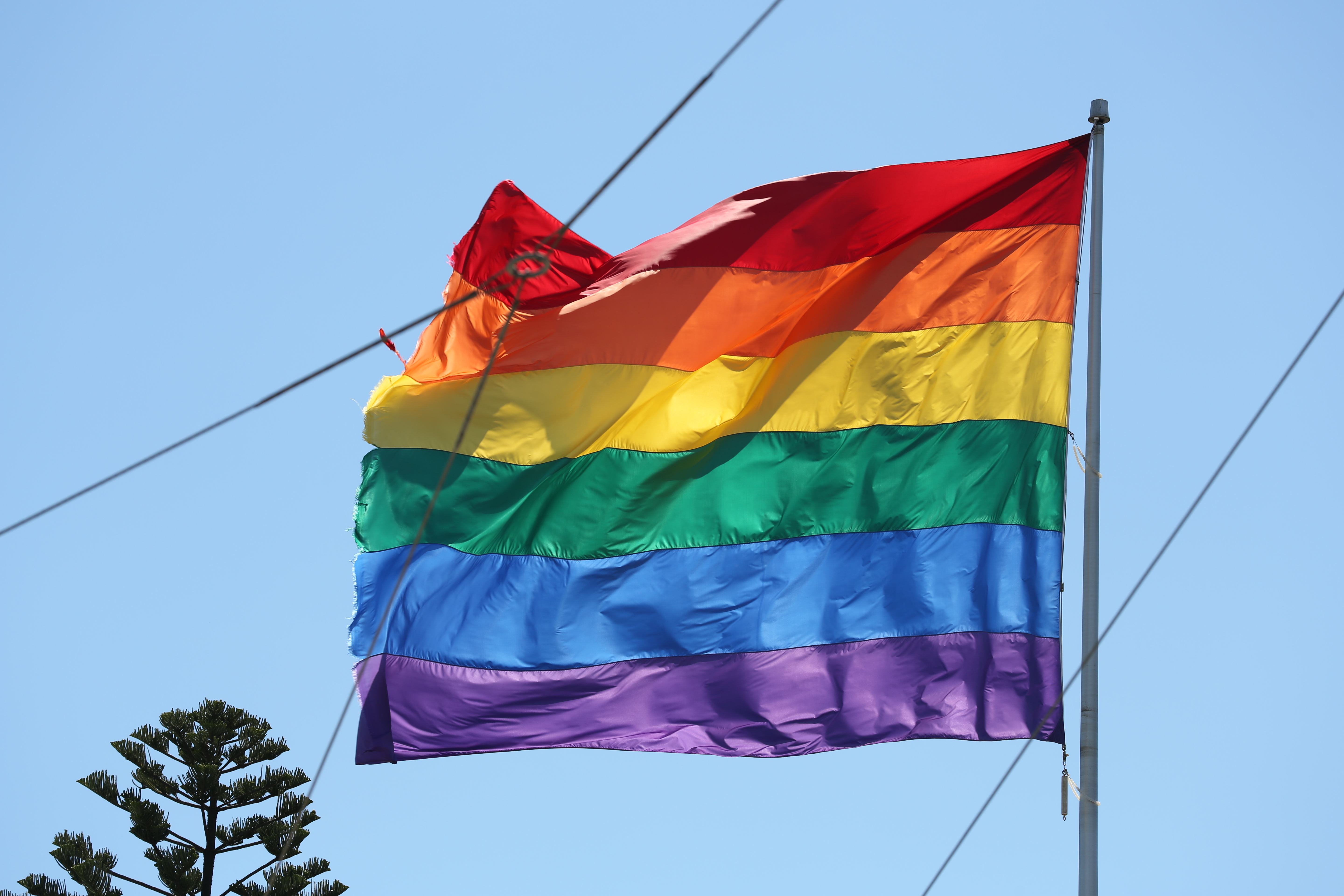 Giant LGBT pride flag at The Castro in San Francisco